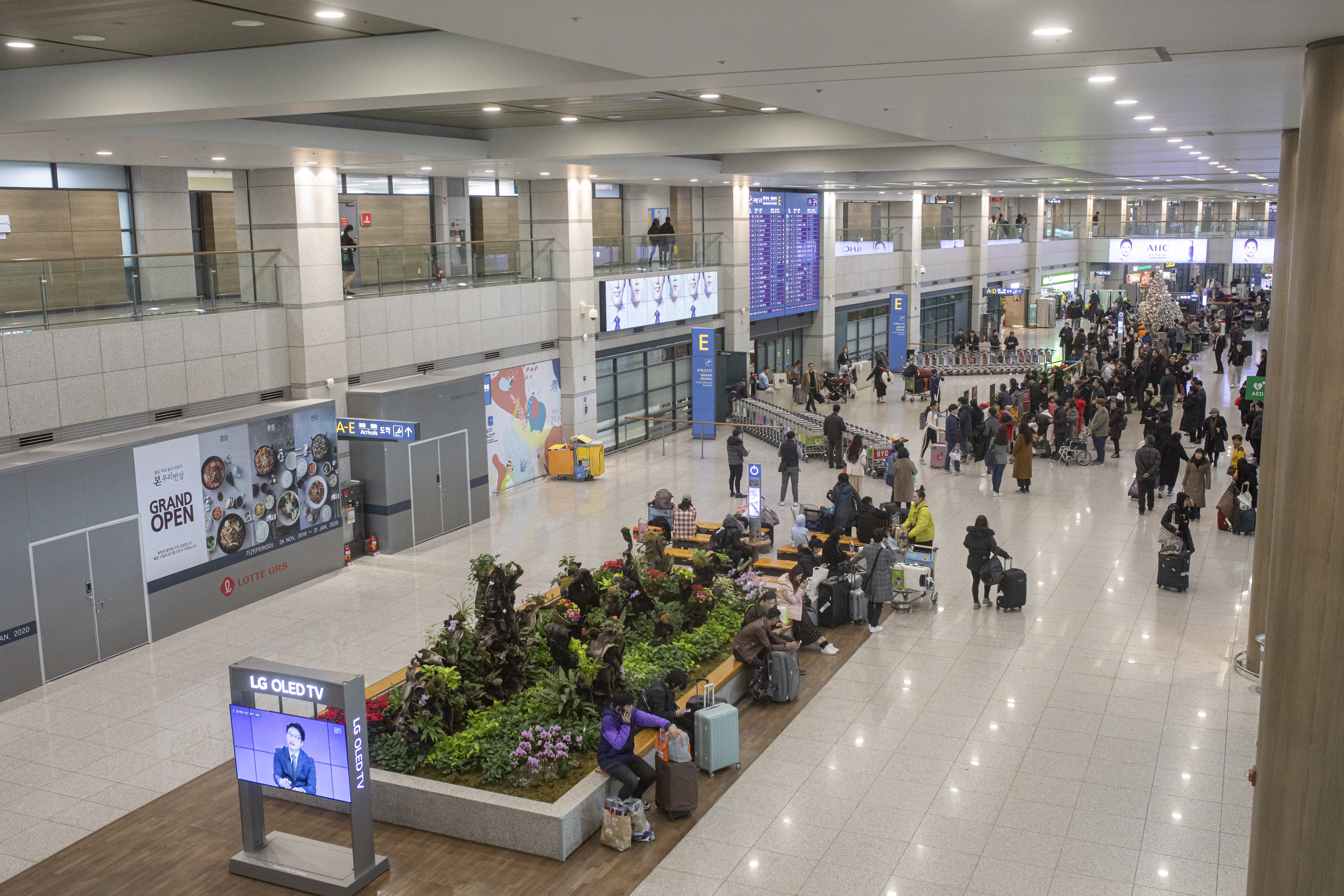 Interior of Terminal 1, Incheon International Airport, South Korea